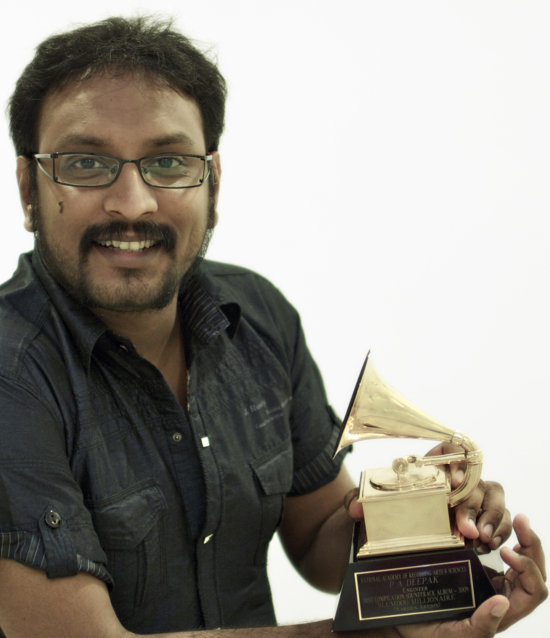 P.A.Deepak with his Grammy Award